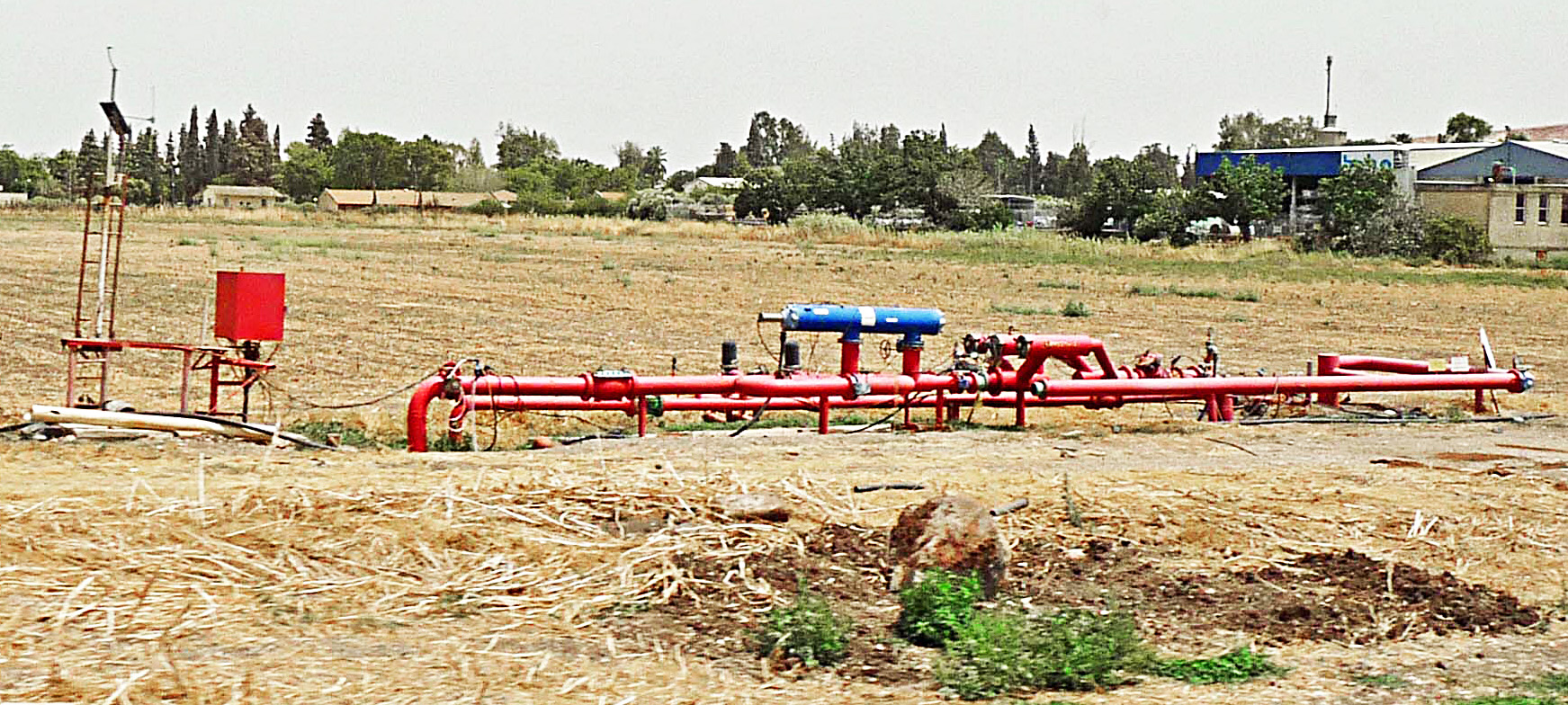 Irrigation water station in agriculture